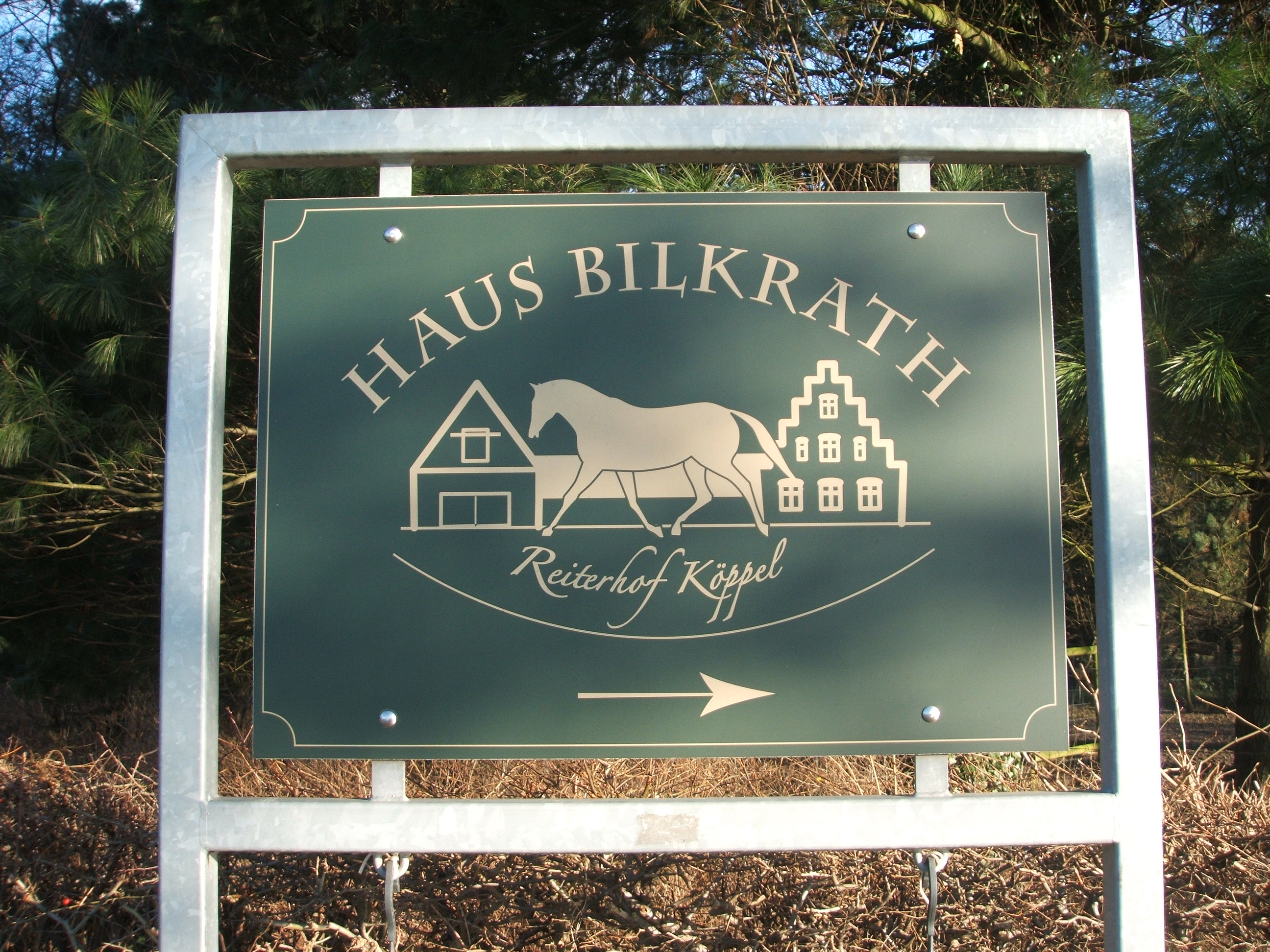 Haus Bilkrath in Düsseldorf-Angermund